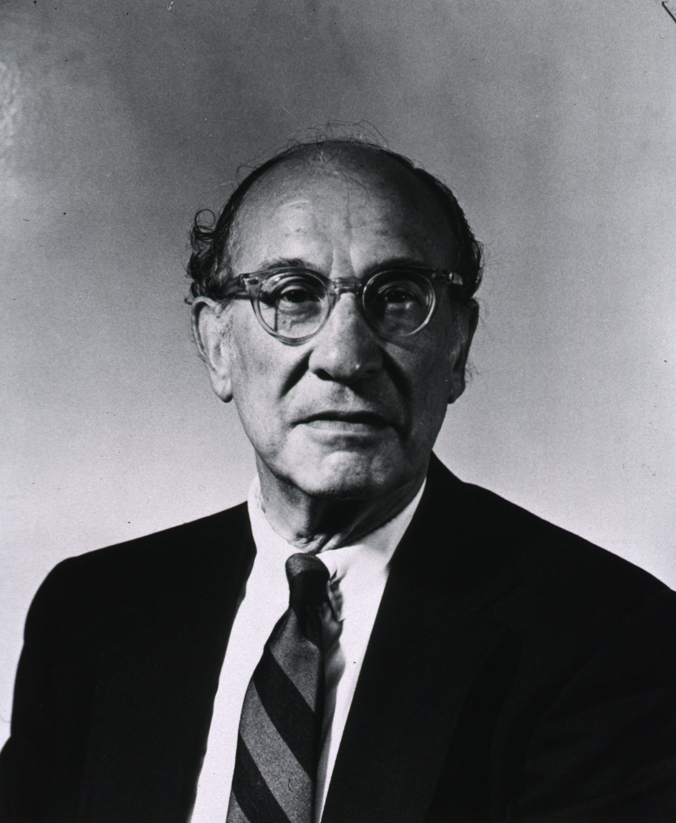 Dr. Louis Sokoloff pioneered the PET scan technique for measuring human brain function and diagnosing disorders. He served as chief of the brain metabolism laboratory at the National Institute of Mental Health. Sokoloff received the Albert Lasker Clinical Medical Research Award in 1981 for his role in developing the vivid color images that map brain function. Louis Sokoloff died in July 30, 2015